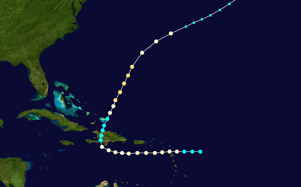 1899 Atlantic hurricane 4 track. Uses the color scheme from the Saffir-Simpson Hurricane Scale.